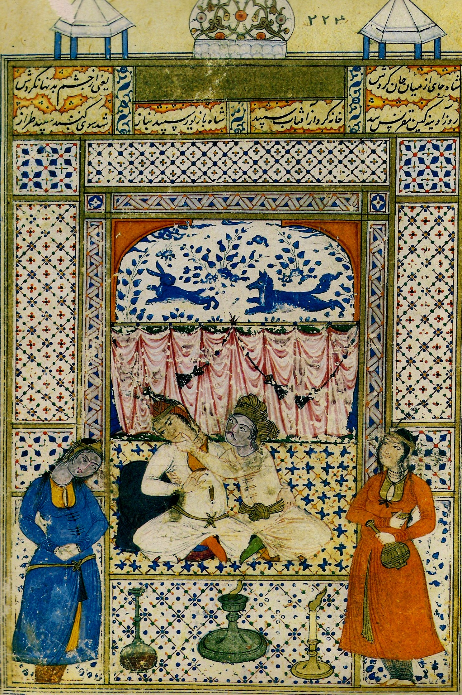 Bahram in white Pavilion. Nizami Ganjavi, Seven Beauties. See also "Л. Н. Додхудоева. Поэмы Низами в средневековой миниатюрной живописи / Ответственный редактор О. Ф. Акимушкин. — М.: Наука, 1985. — P. 223-224."